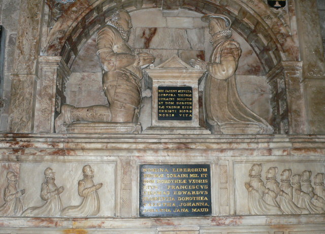 Cokayne Tomb, St Oswald's Church Just outside the Boothby chapel, against the north wall of the transept, stands the monuments to Sir Thomas Cokayne (died 1592) and Lady Dorothy Cokayne. Below their effigies can be seen engravings of their children - three sons on the left and five daughters on the right.